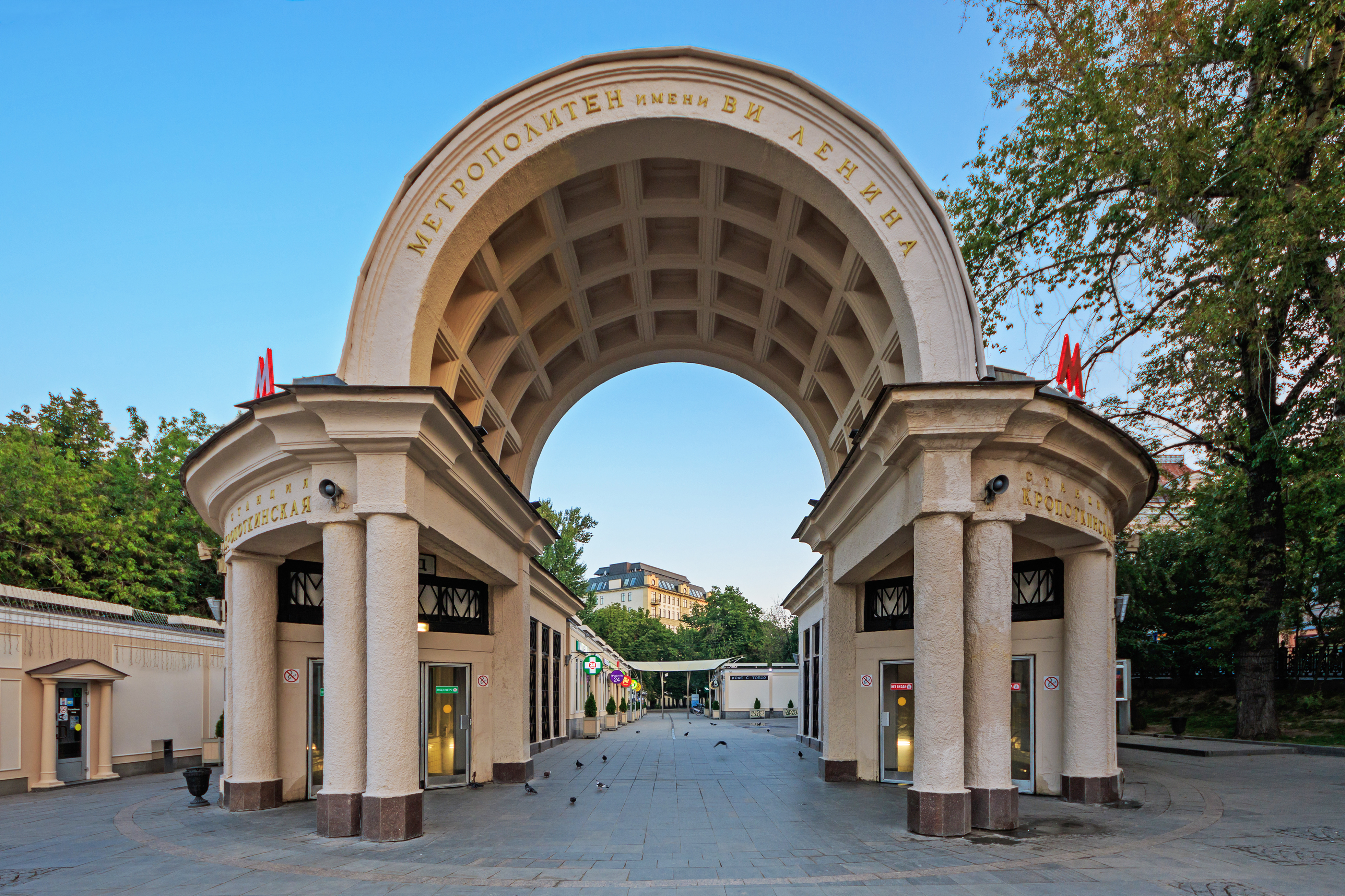 Entrance pavilion of Kropotkinskaya metro station. Moscow, Russia.